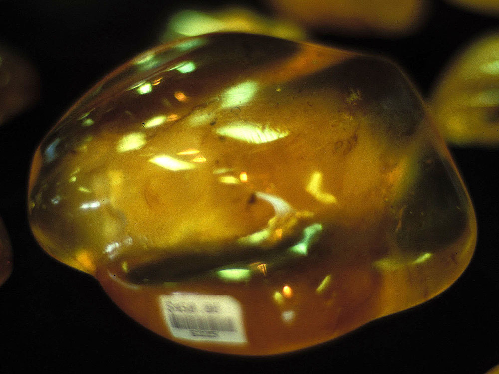 Gum from Kauri tree Agathis australis, sold in Kauri Museum, New Zealand